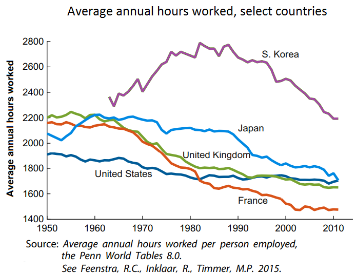 Average annual hours worked